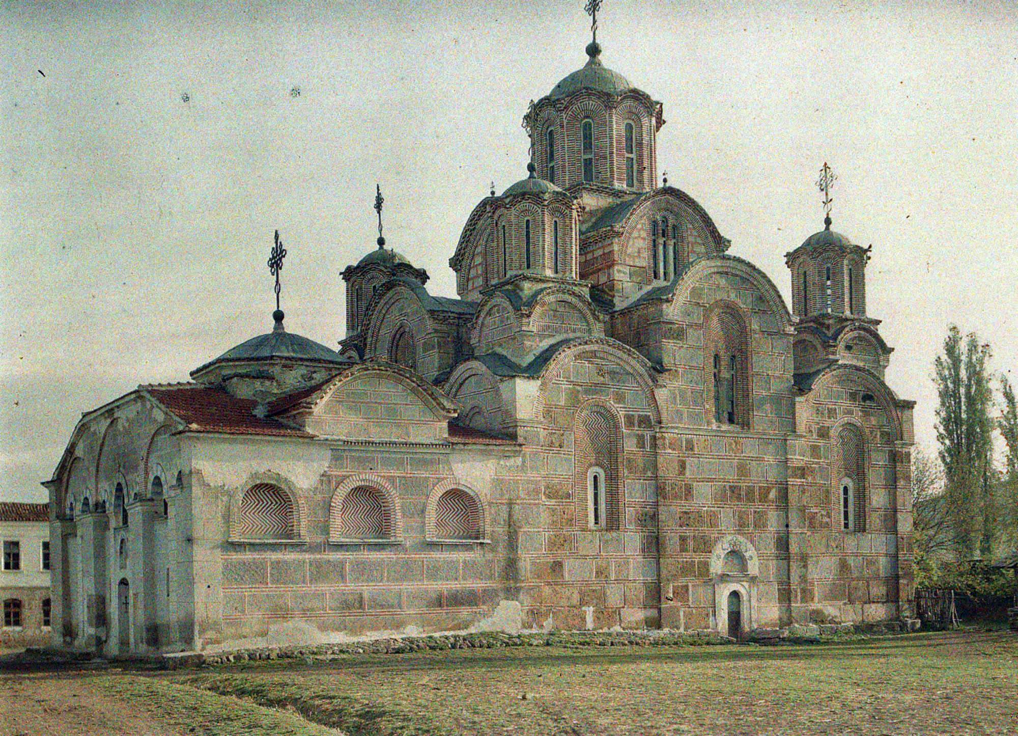 The monastery of Gračanica, built in 1321.